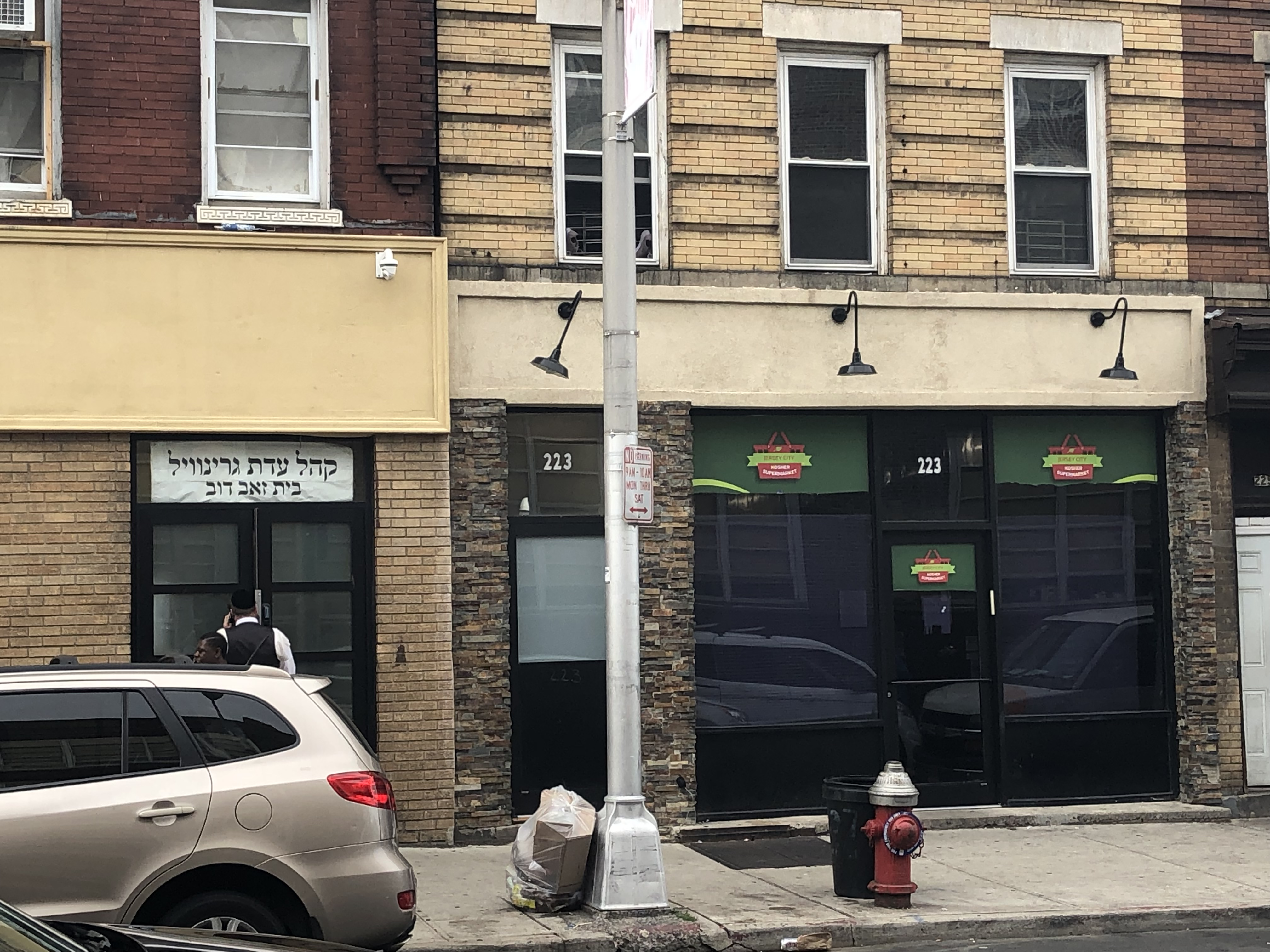 JC Kosher Supermarket & entrance to Khal Adas Greenville (left), Martin Luther King Drive in Greenville (on Jackson Hill), Jersey City, New Jersey 07305